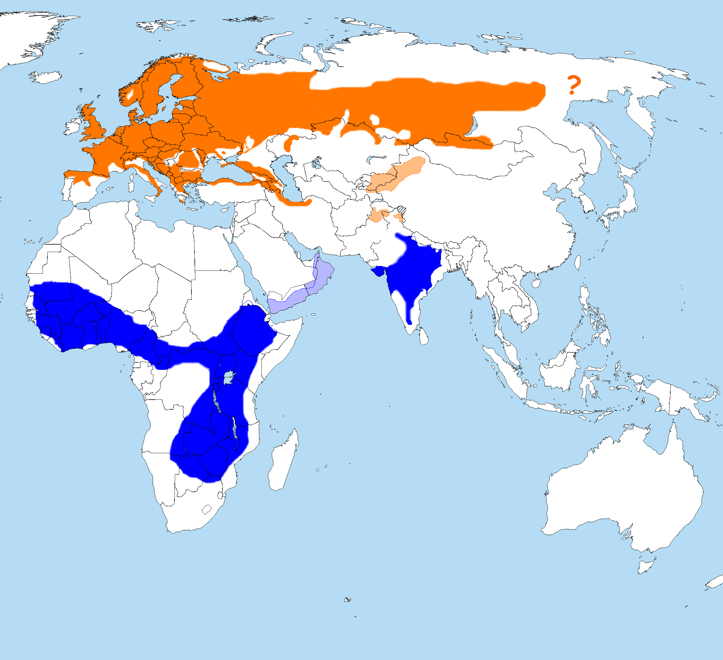 Range map of tree pipit (Anthus trivialis). orange: Breeding-range of subspecies Anthus t. trivialis, lightorange: Breeding-range of subspecies A. a. haringtoni, dark blue: Wintering area of both subspecies, lightblue: Migration and occasionally wintering area of southwest migrants